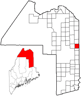 Adapted from U.S. Census Bureau maps (American FactFinder) and Wikipedia's ME county maps by Bumm13.